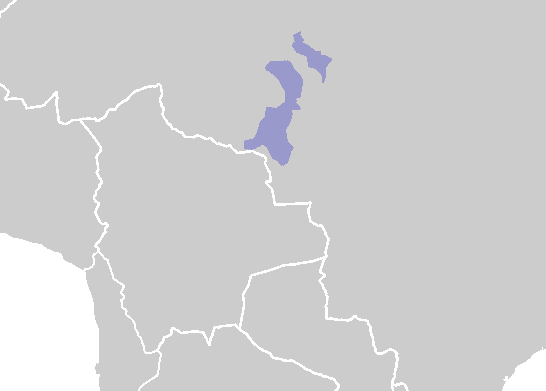 Nambikwaran languages Sources: Ivan Lowe (1999): "Nambiquara" in The Amazonian Languages, Dixon & Alexandra Y. Aikhenvald (eds.), Cambridge: Cambridge University Press, 1999. p. 268-70. Nicholas Ostler (2005): Empires of the World: A Language History of the World, p. 362